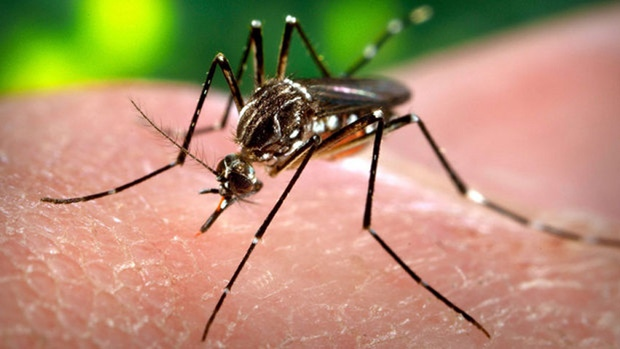 Aedes aegypti , one of the transmitters Zika virus